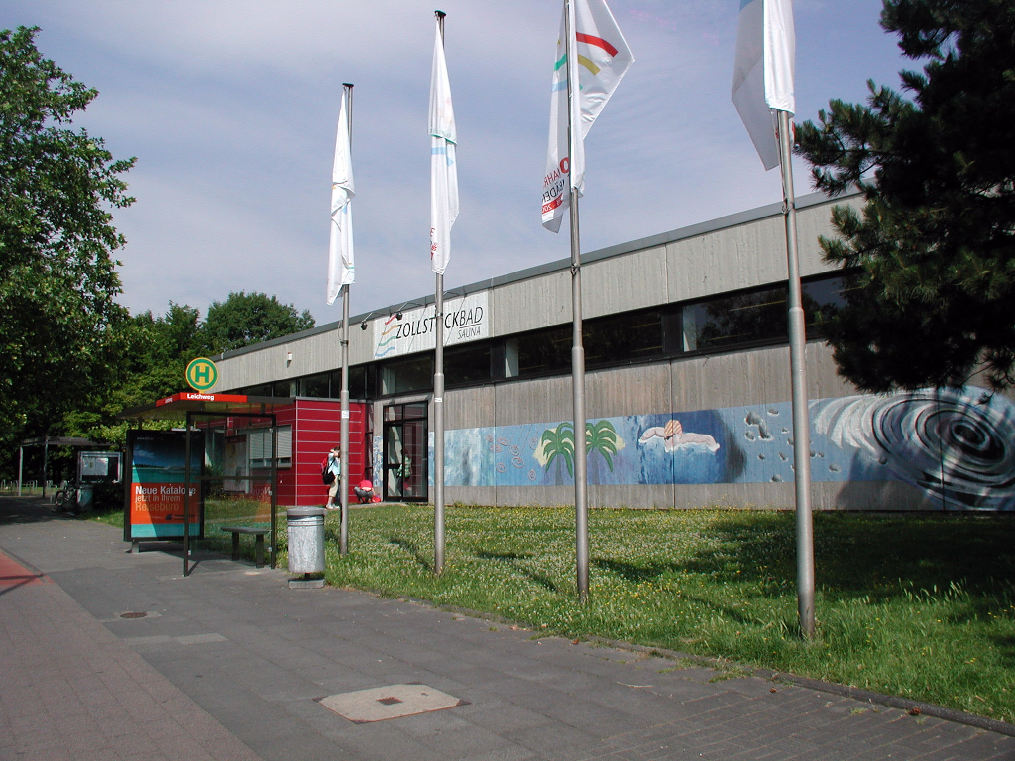 Cologne, swimming bath at Raderthalgürtel